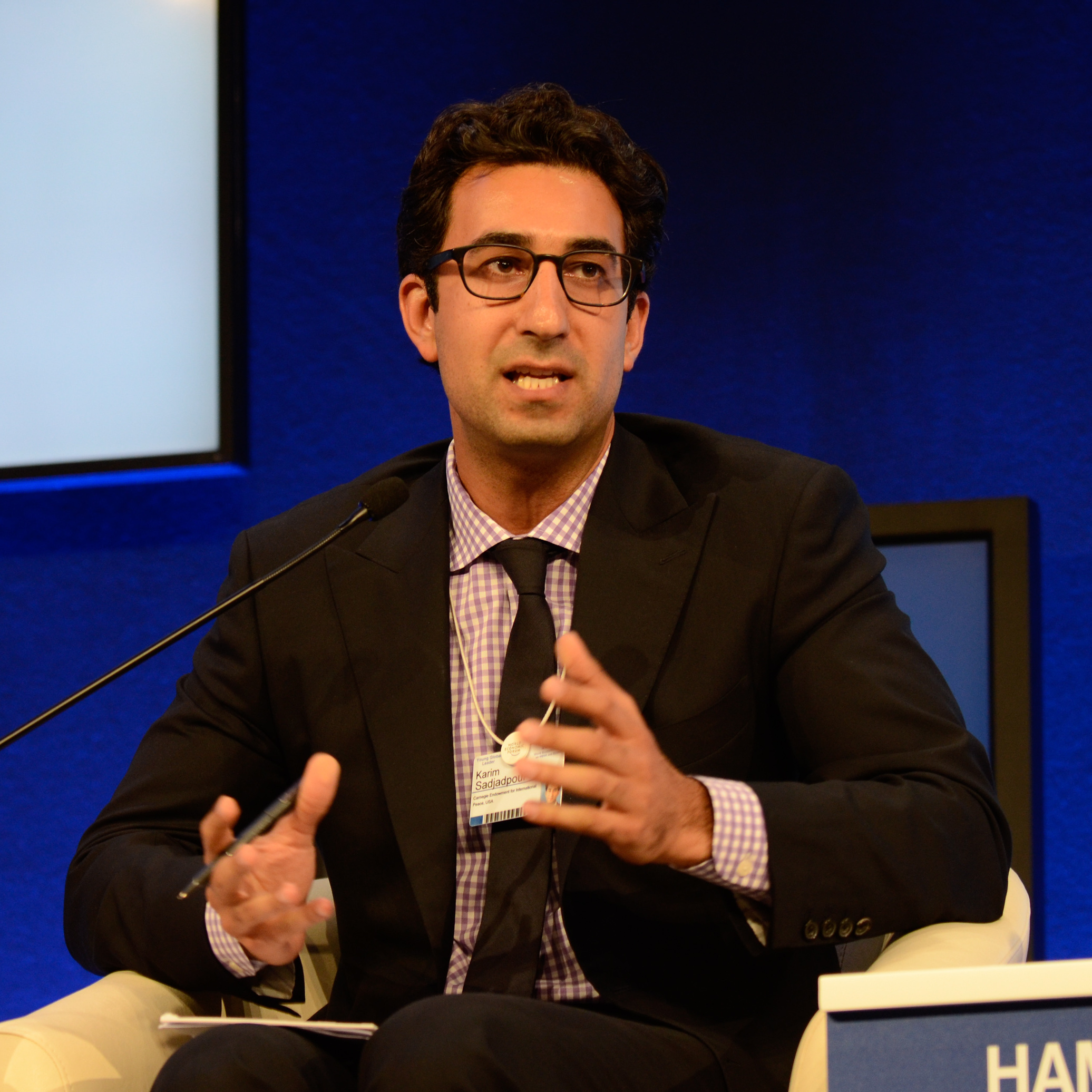 ISTANBUL, TURKEY, 6 June 2012 - Karim Sadjadpour, Senior Associate, Carnegie Endowment for International Peace, USA; Young Global Leader, participates in a discussion about Syria at the World Economic Forum on the Middle East, North Africa and Eurasia in Istanbul, 4-6 June 2012. Copyright World Economic Forum ( by Dana Smillie